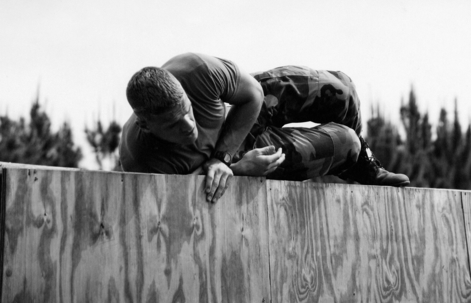 Jason Dunham, conquering the O-Course during a "super-squad" competition for the CQB Platoon at MCSFCo Kingsbay. Image submitted on occasion of the Department of Navy announcement that the Navy's newest Arleigh Burke Class Guided Missile Destroyer will be named USS Jason Dunham (DDG 109), honoring the late Cpl. Jason L. Dunham, the first Marine awarded the Medal of Honor for Operation Iraqi Freedom.